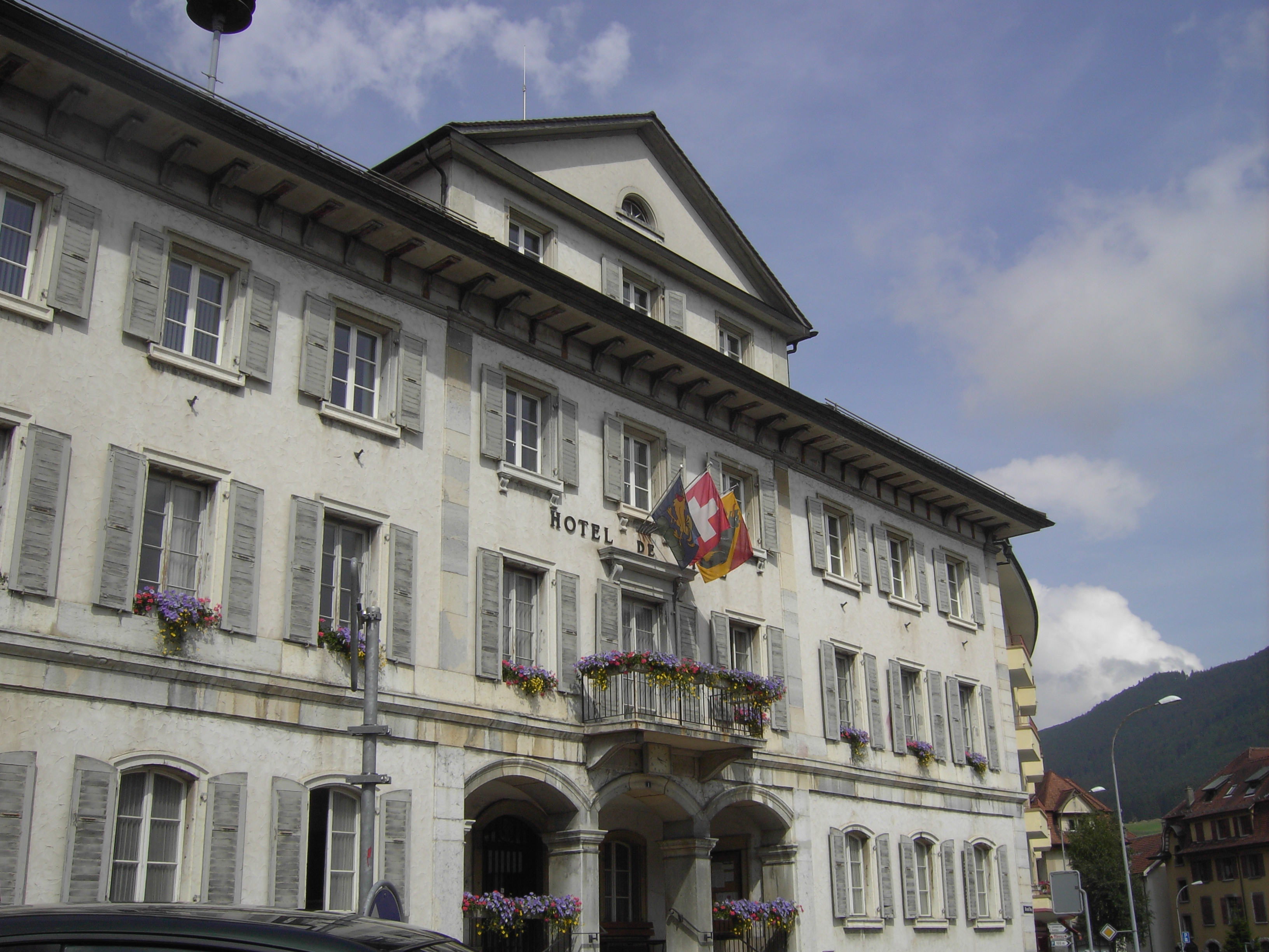 City Hall Tavannes BE, Switzerland